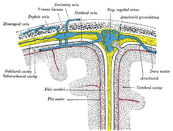 Diagrammatic representation of a section across the top of the skull, showing the membranes of the brain, etc. (Modified from Testut.)